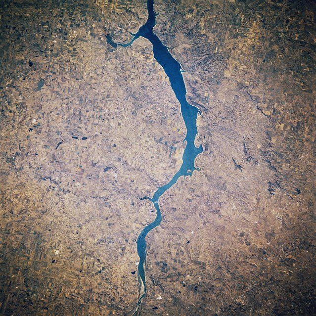 Lake Oahe, North Dakota more